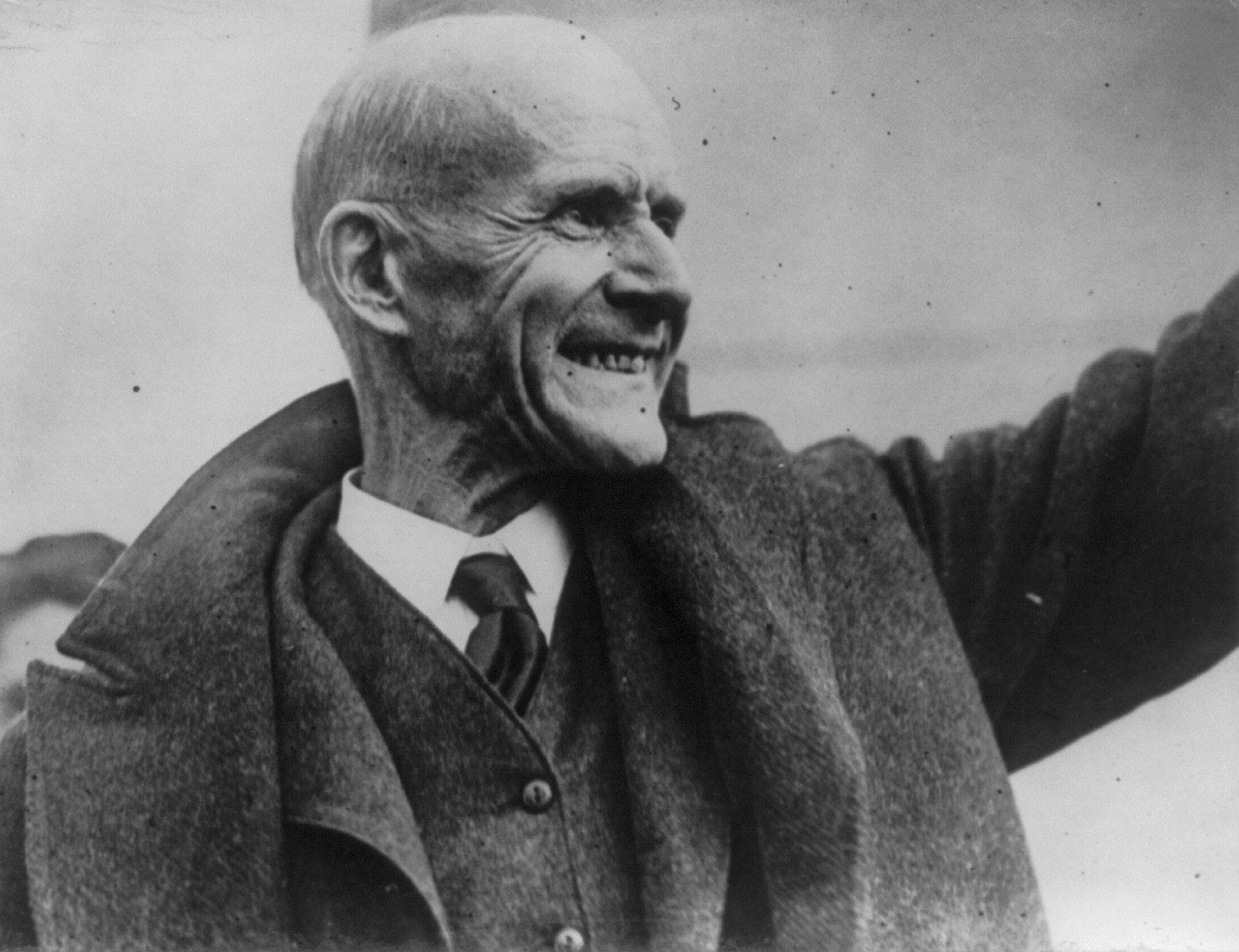 Eugene V. Debs leaving the Federal Penitentiary in Atlanta, Georgia, on Christmas Day 1921. He had been imprisoned in 1918 under the Sedition Act, for giving a speech against participation in the First World War. President Warren G. Harding commuted his sentence to time served in December 1921.